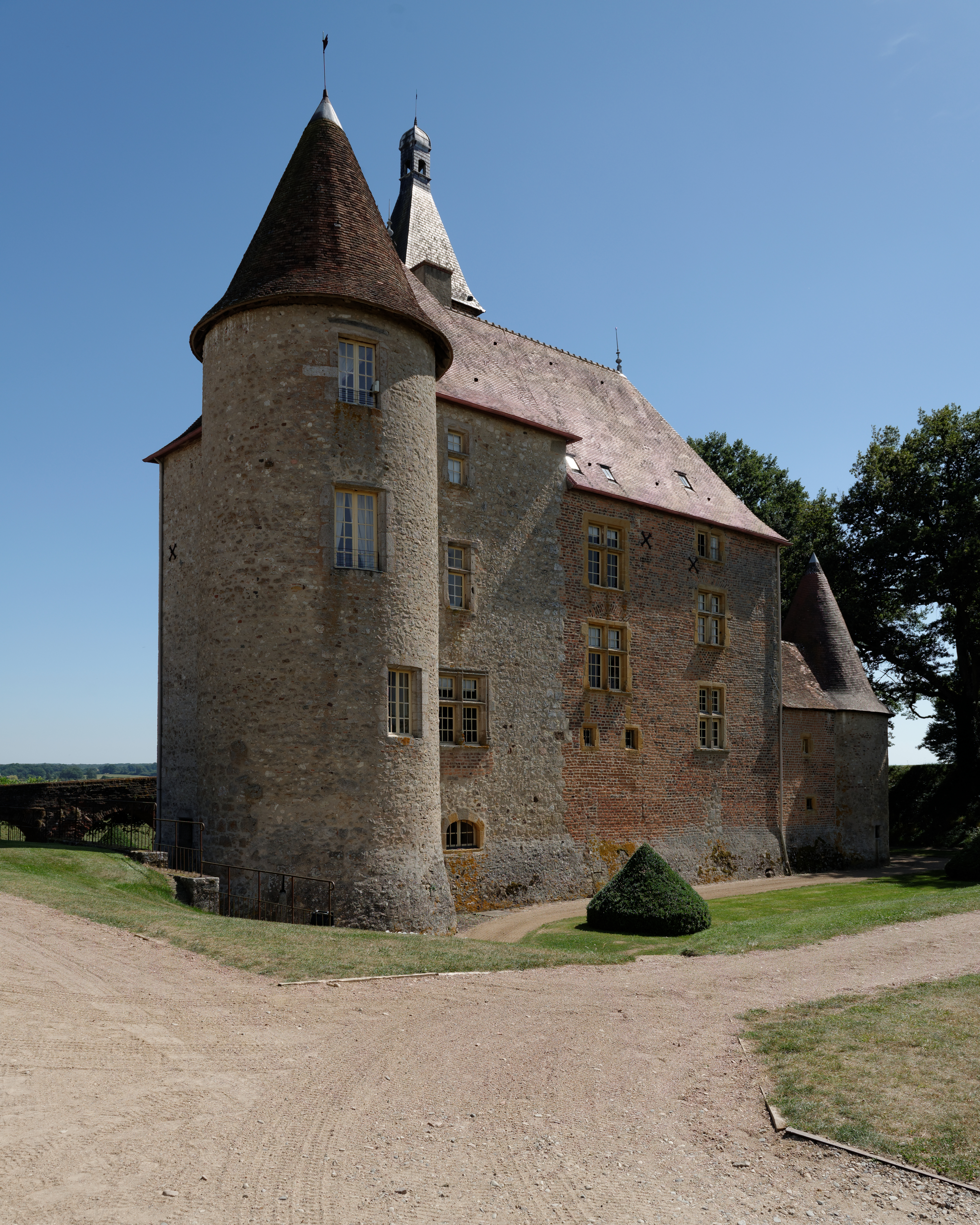 The castle of Beauvoir in Saint-Pourçain-sur-Besbre, Auvergne, viewed from the Northwest.